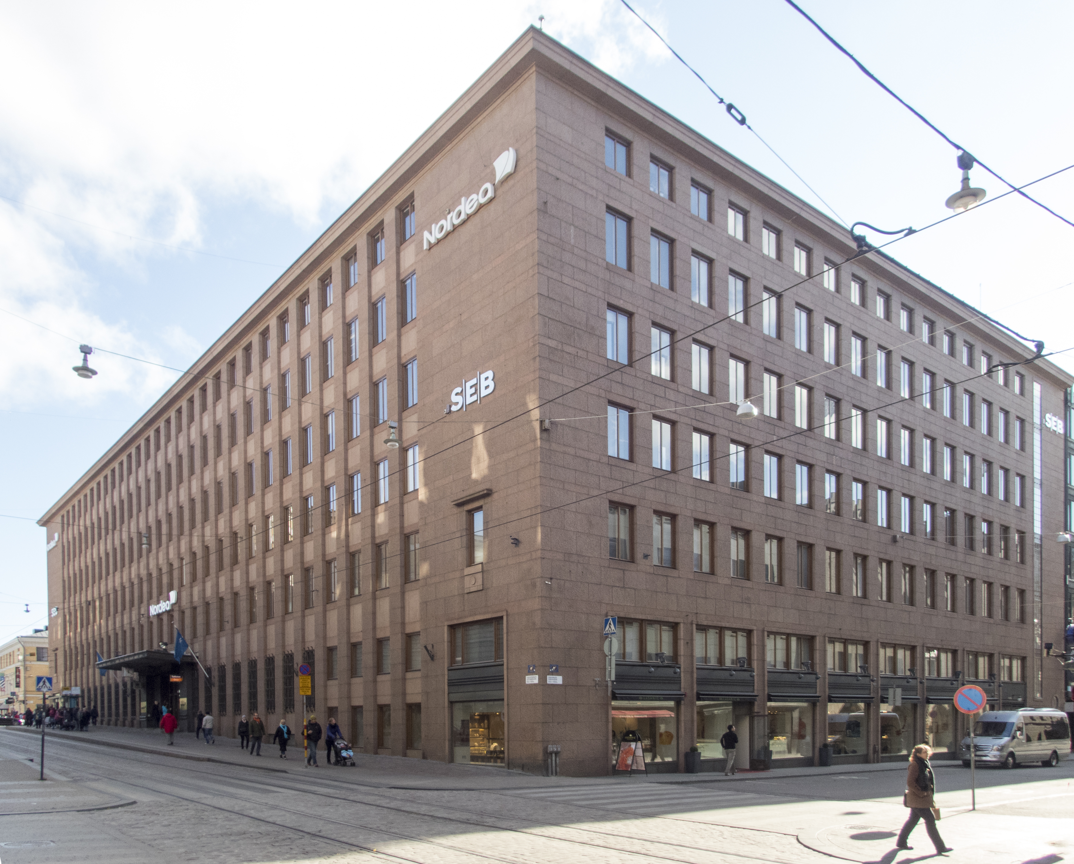 Aleksanterinkatu 30-34 - Fabianinkatu 31, Helsinki. Originaly Head quaters for Pohjoismaiden Yhdyspankki / Finska föreningsbanken, built in 1936. Architect Ole Gripenberg